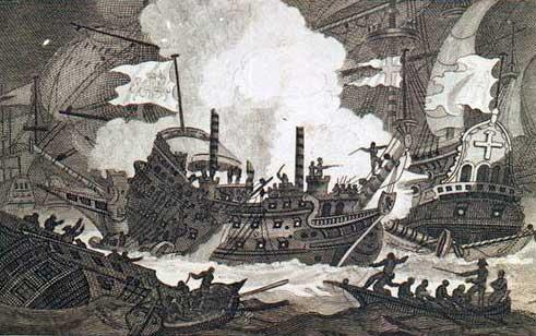 Sir Richard Grenville's Gallant Defence of the Revenge